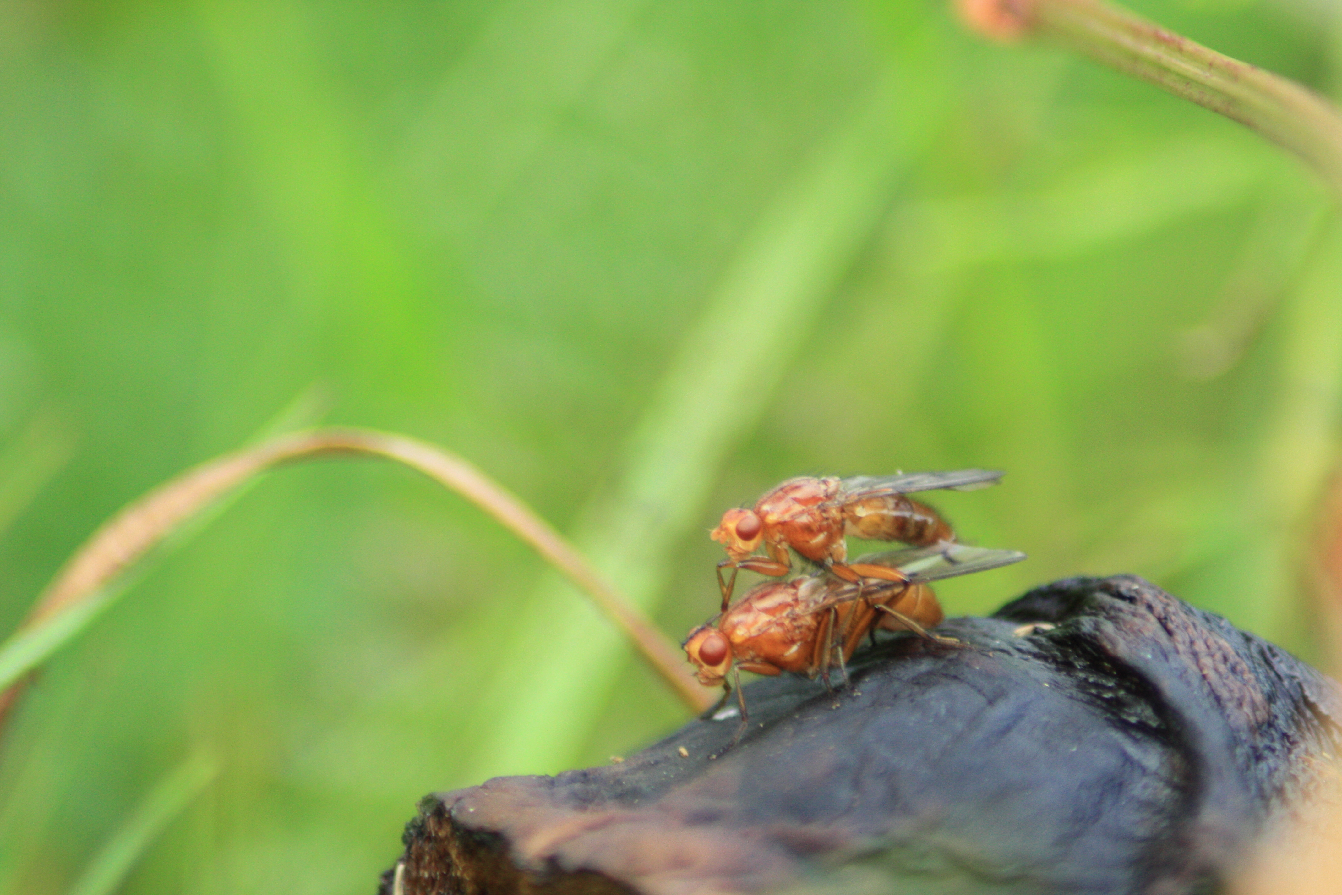 Two flies (Neuroctena anilis) sitting on a decaying mushroom. Picture taken in Tromsdalen, Troms, Norway.